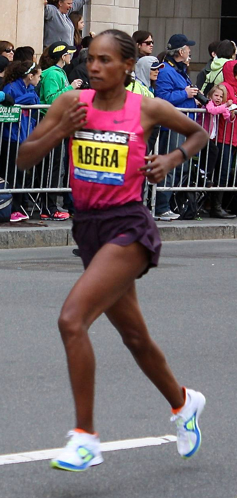 Copyright © 2013 Sonia Su. Boston Marathon.